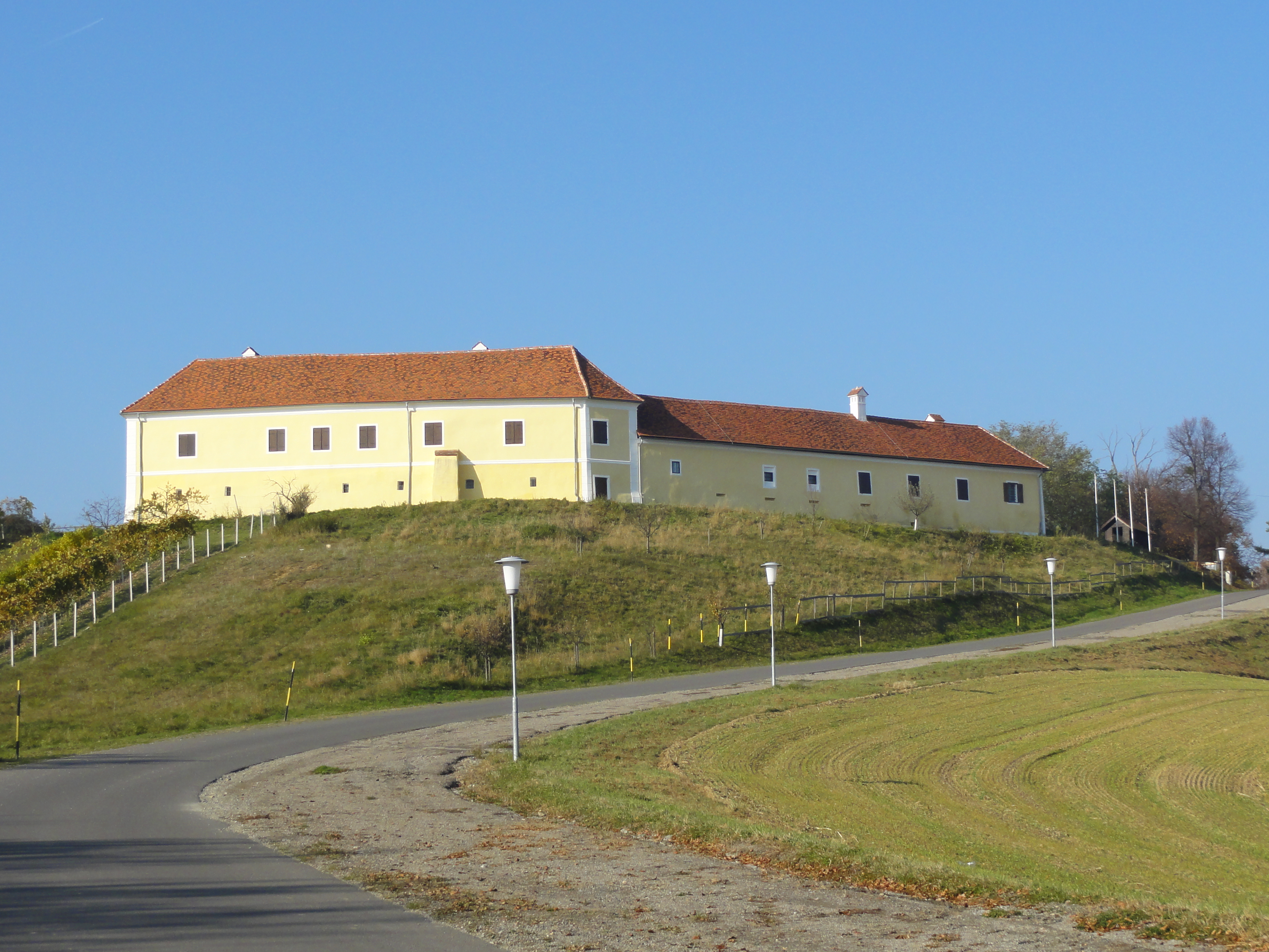 Tabor manor house was built in 1469 and is the oldest publicly accessible building in district Jennersdorf. It served as makeshift quarters for the destroyed and decaying Castle Neuhaus